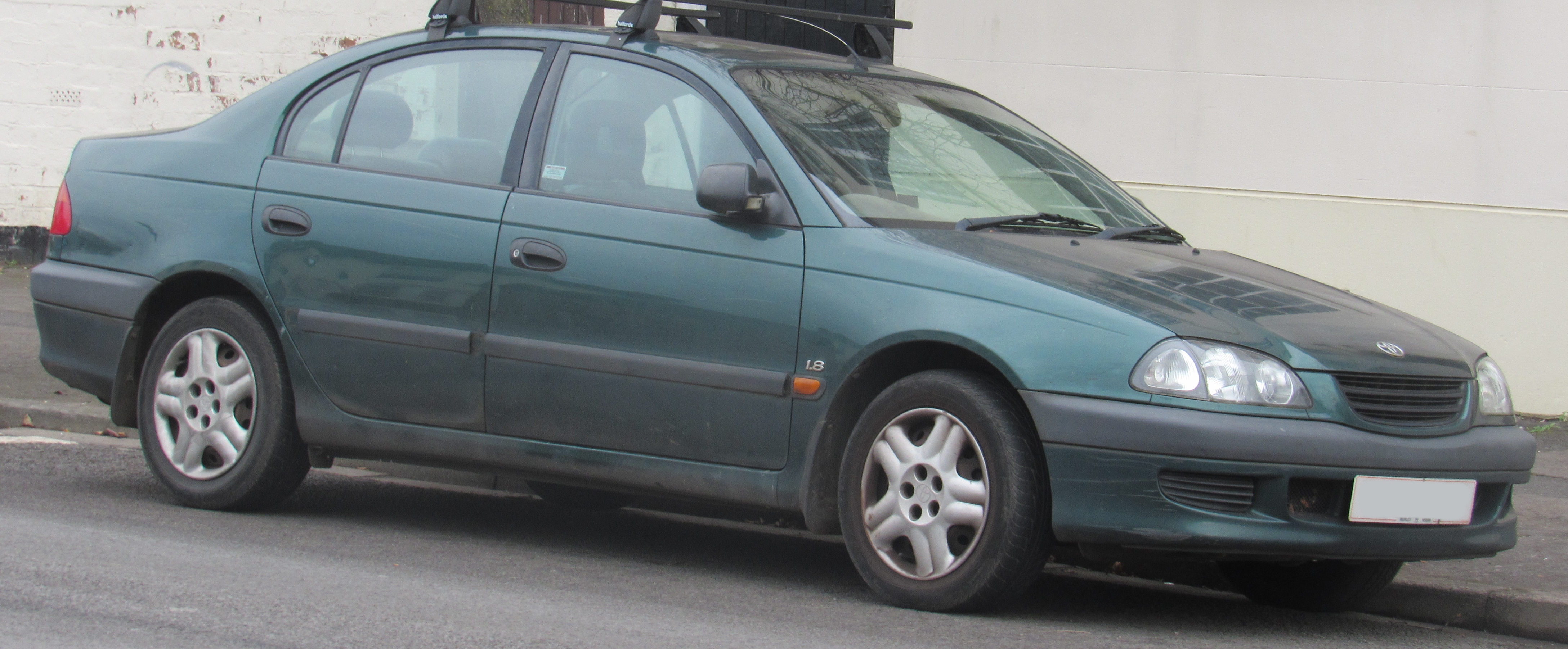 1999 Toyota Avensis GS 1.8 Front Taken in Leamington Spa